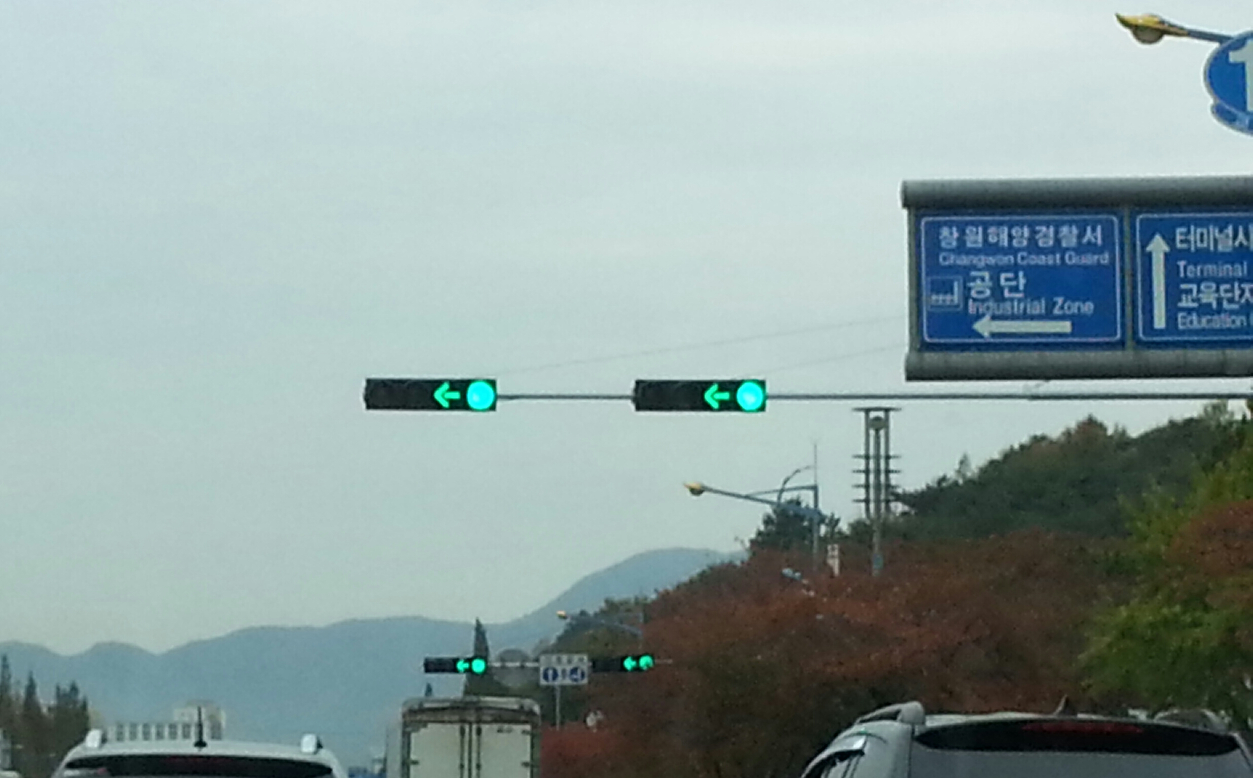 Green-lighted left+straight traffic sign in Korea. You can also see 70km speed limit sign.